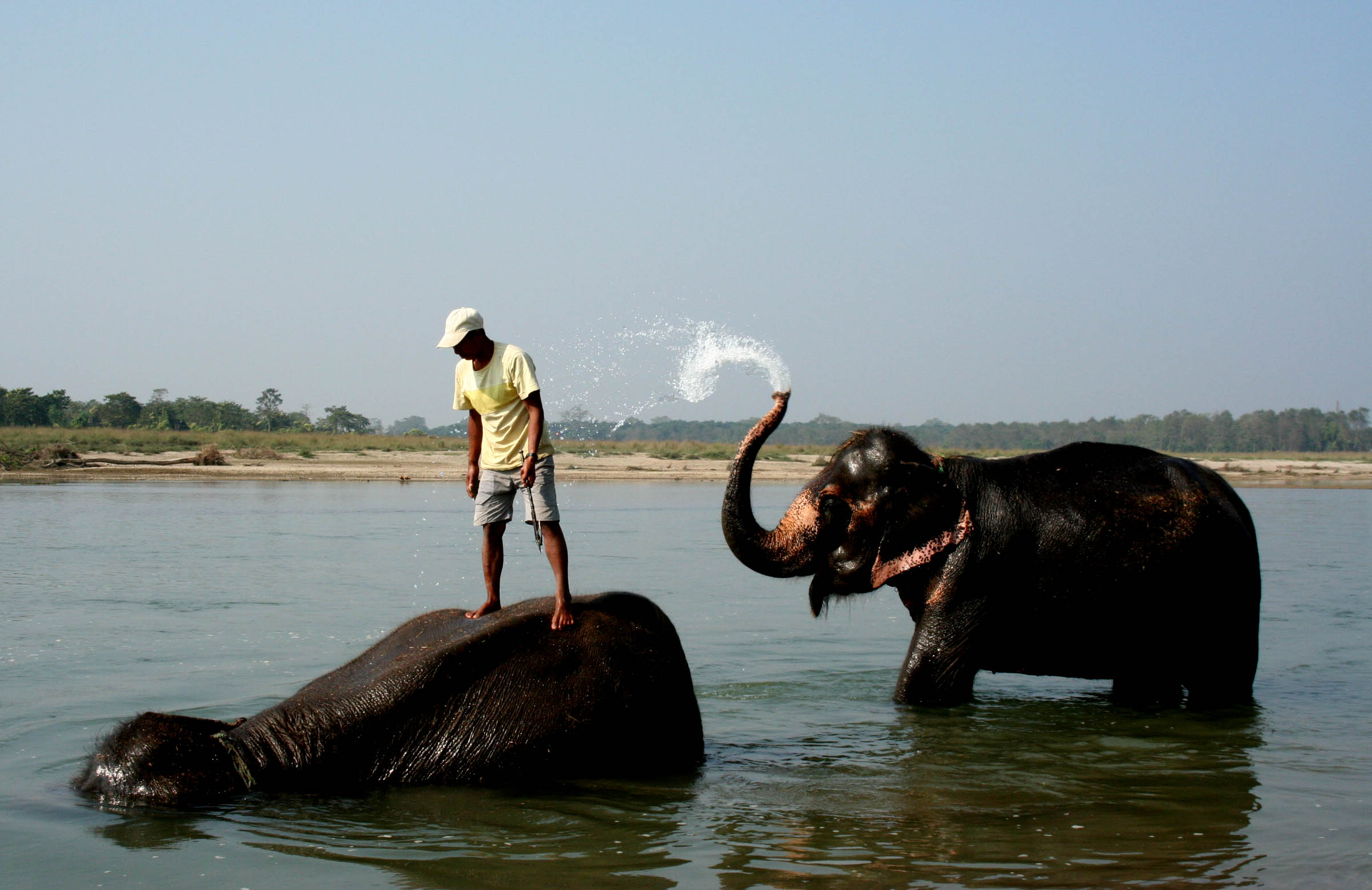 Two elephants and their keeper in the water in Chitwan, Nepal. One elephant partly submerged, the other creating a shower. Photography by the NGO medapt